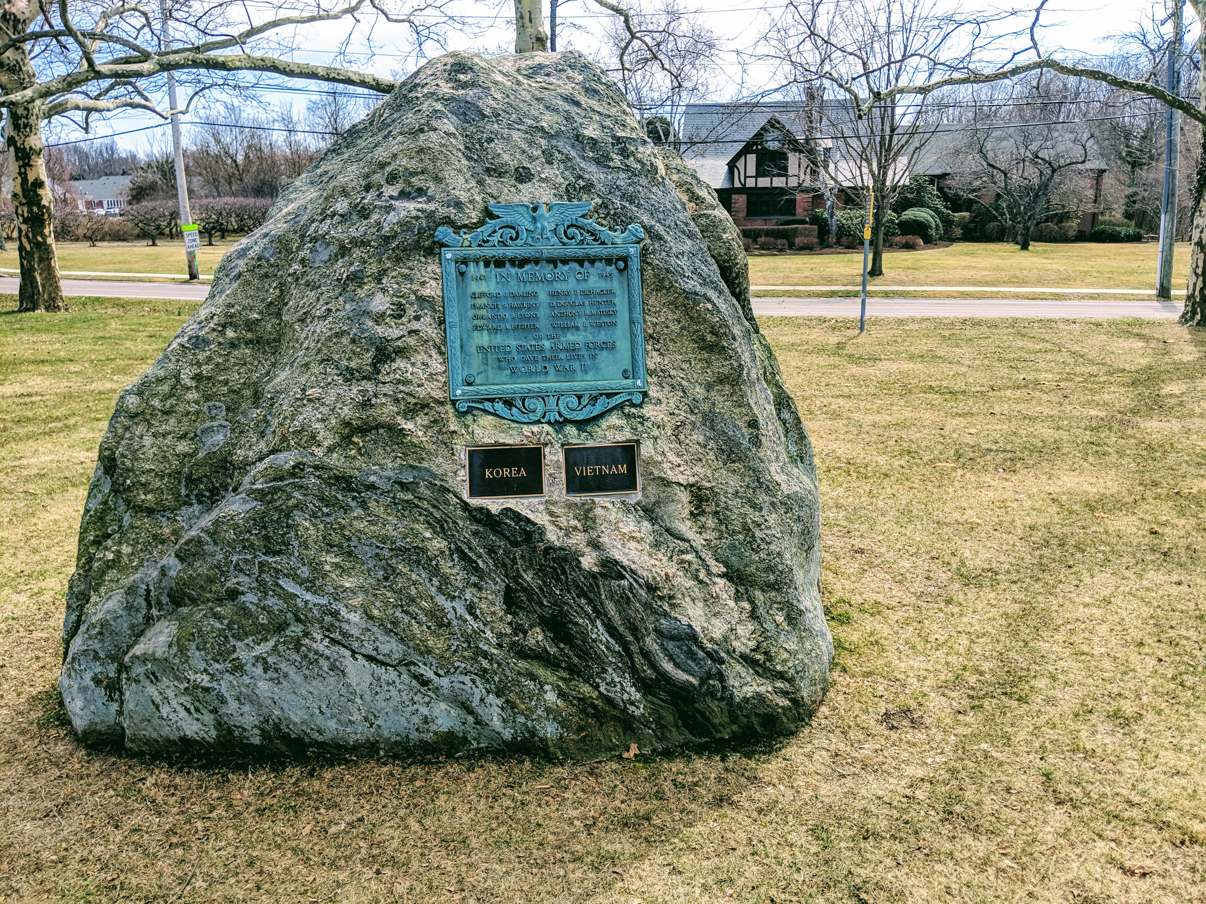 Korean and Vietnam War memorial -Setauket Village Green with Emma S. Clark Memorial Library in background